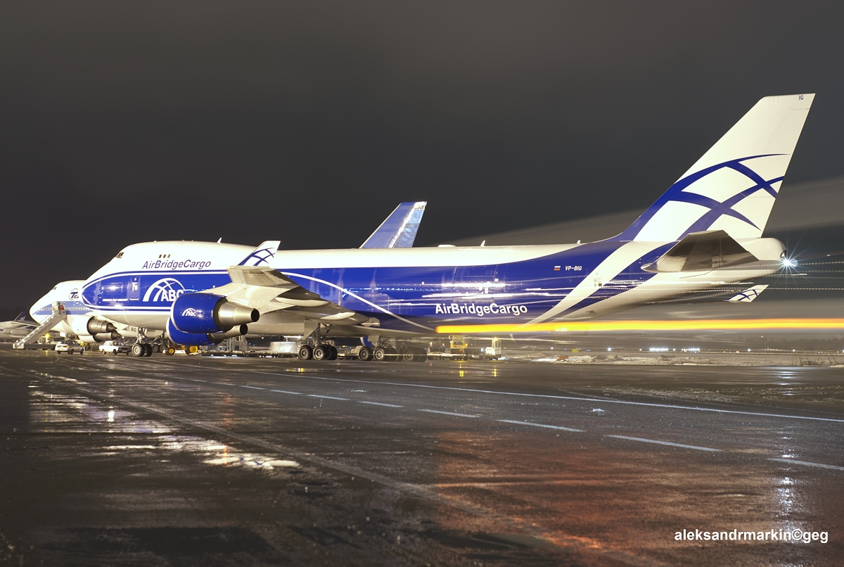 "AirBridgeCargo"B-747-400F VP-BIG